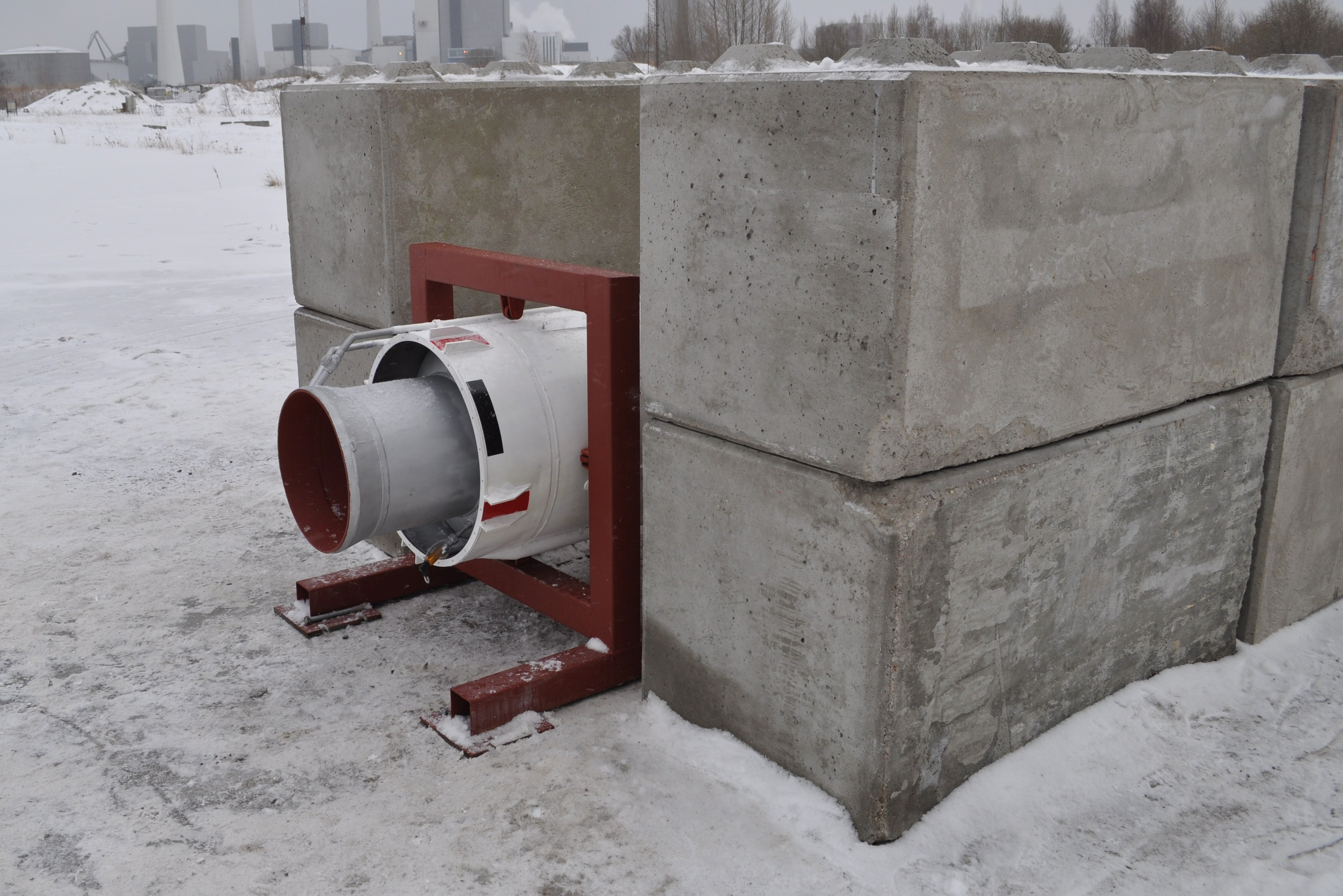 The business end of HEAT-1X peeping out from the Lego concrete bricks surrounding the rocket. The bricks are needed during the ground test February 28th 2010. If successfully, this rocket booster will launch the unmanned "Tycho Brahe 1" to an altitude of 40 km in June 2010.